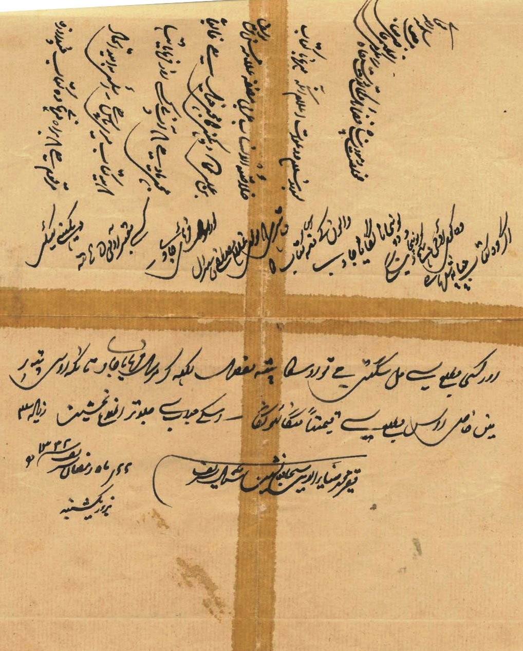 A letter written by Sajjada Nashin Pir Sial Sharif Khawaja Zia ud Din in 1915 to Qazi Mian Muhammad Amjad asking him about the rare book 'Kihalastah al-Nisab', a treatise on the descendants of 'Ali Ibn Abi Talib', Alawi. This treatise also includes the descendants of Ali Ibn Abi Talib who migrated to other countries after the rise of Umayyad Caliphate.